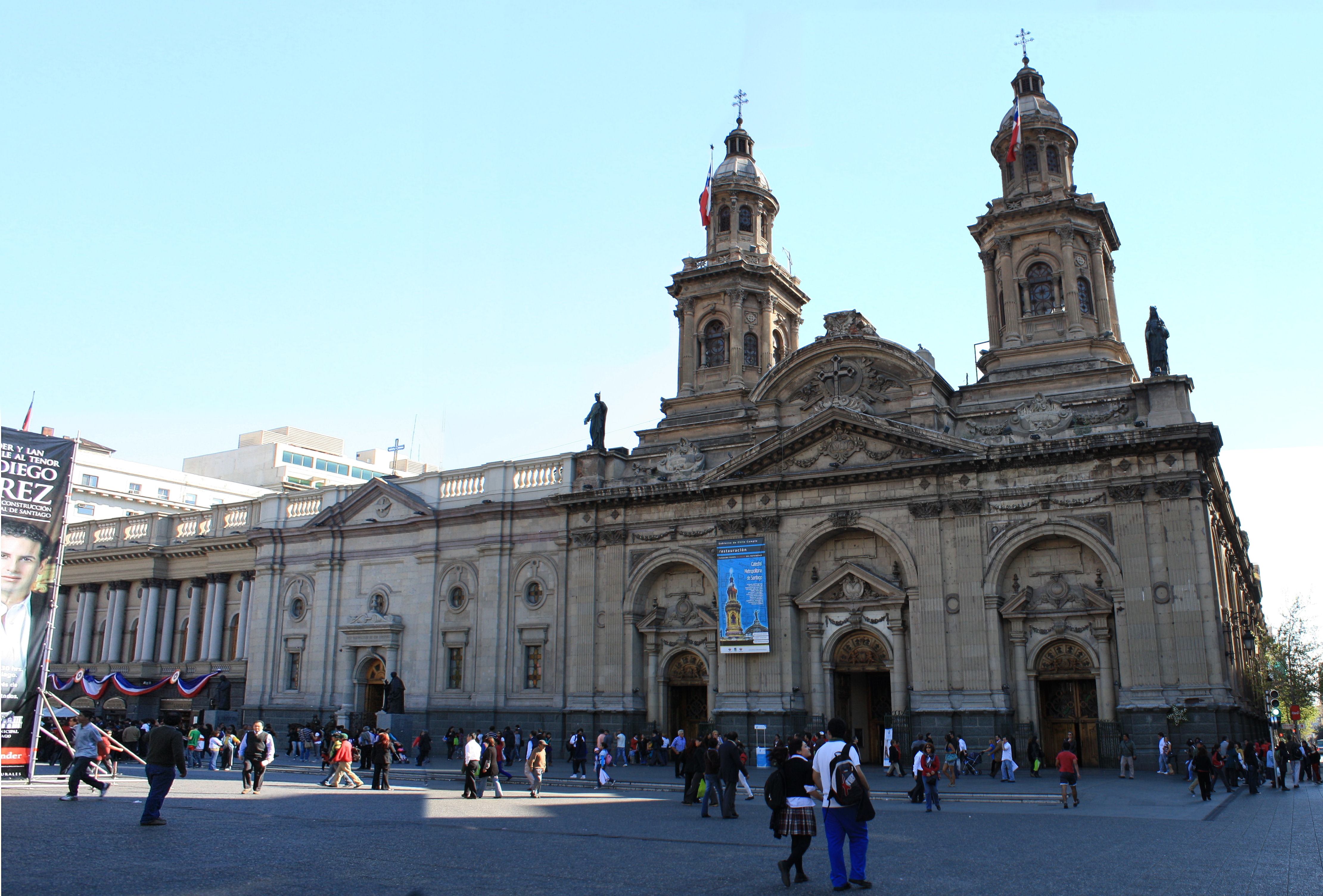 There's more of Santiago to come – when time permits.